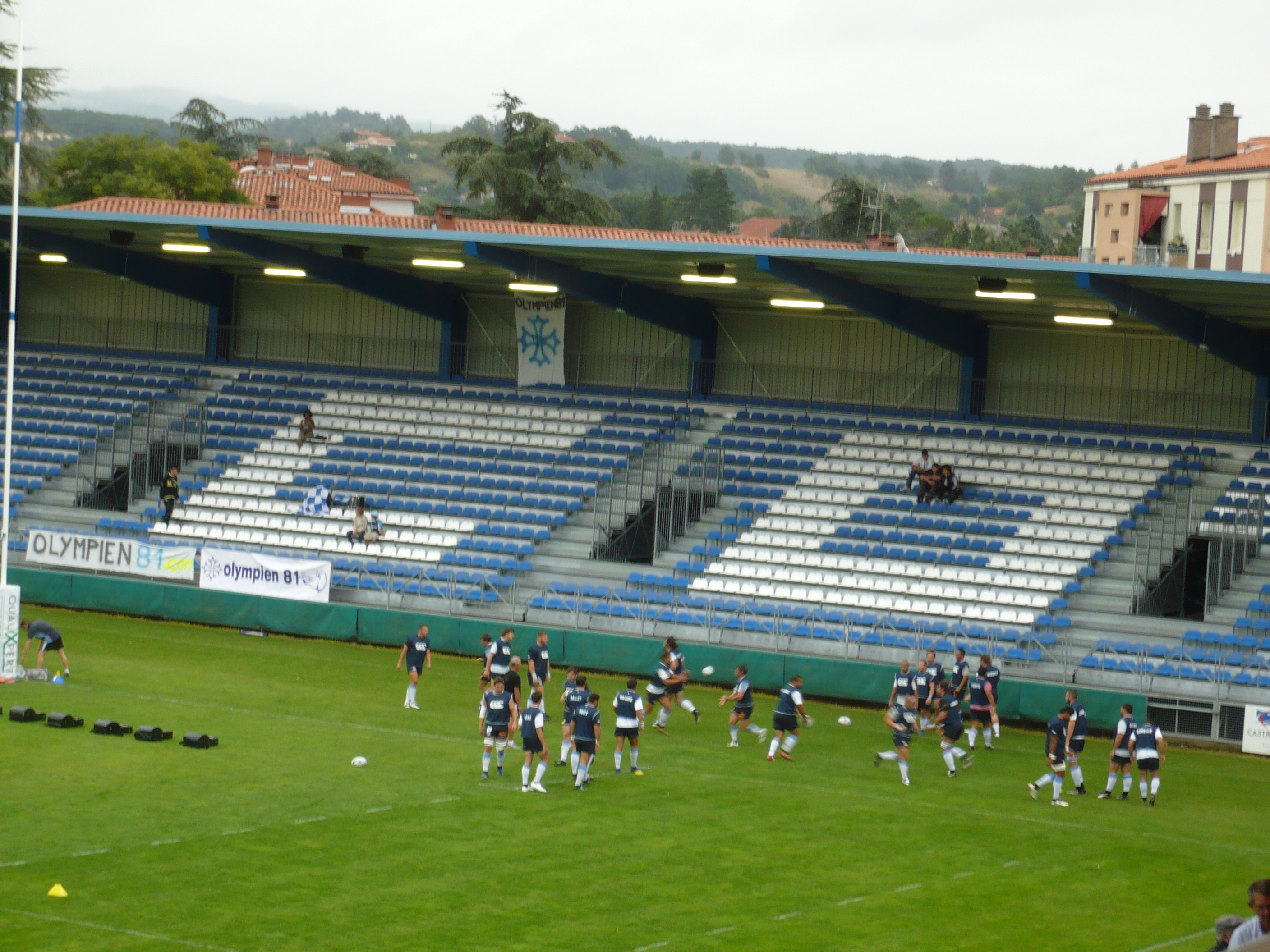 Entrainement d'avant match du Castres Olympique en 2008